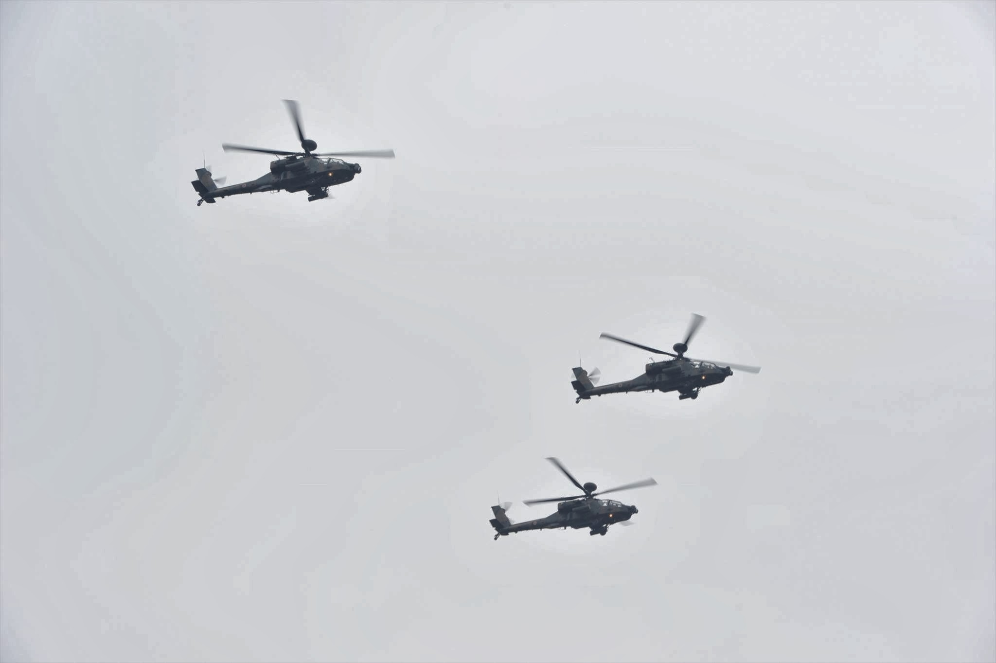 Title 12_07_003_R.JPG Album 自衛隊記念日 観閲式(Parade of Self-Defense Force) 平成22年度自衛隊記念日 観閲式(Parade of Self-Defense Force) AH-64D アパッチ・ロングボウ